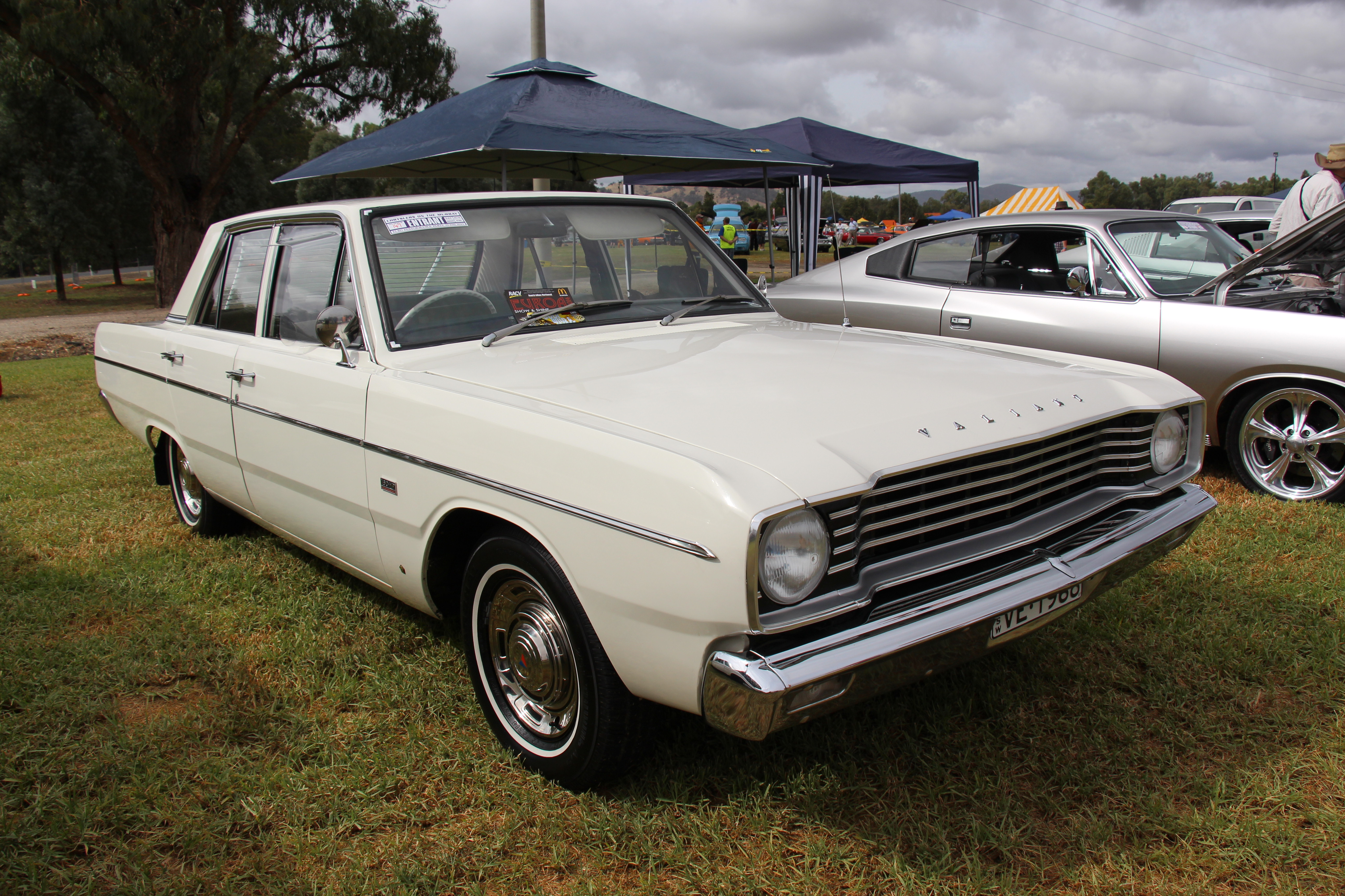 Chrysler Valiant VE Sedan